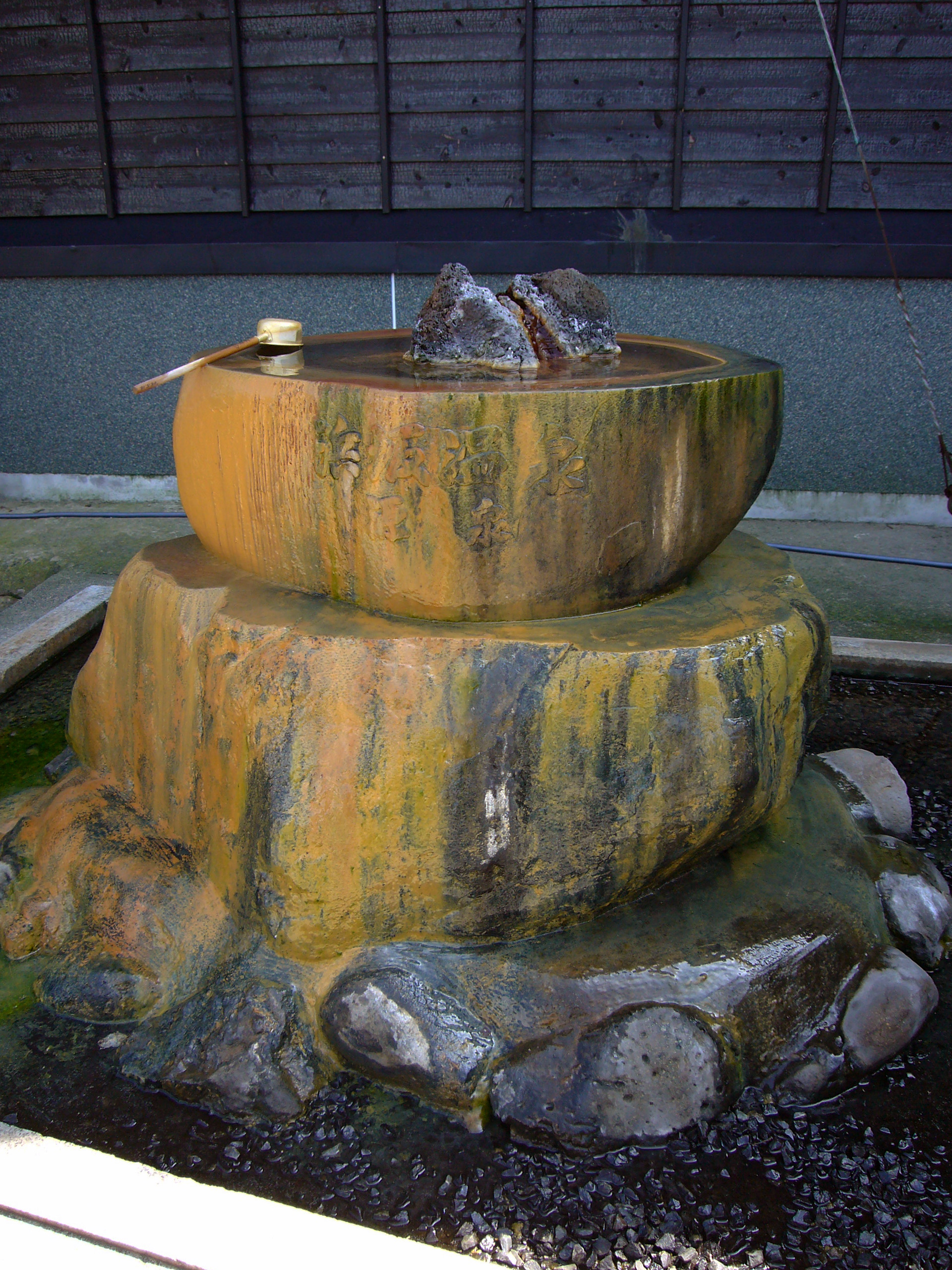 Hamasaka Onsen of Hamasaka Onsenkyo, Shinonsen, Hyogo prefecture, Japan